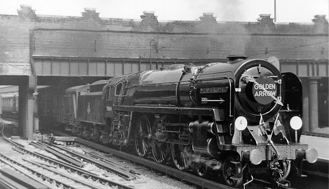 The 'Golden Arrow' leaving Victoria Station. View northward under Elizabeth Bridge towards the buffer-stops: the celebrated de-luxe (all Pullman cars) Continental Boat Train to Folkestone Harbour, which connected with the ferryboat to Calais, thence an arrival that evening in Paris at 21.40 and Monte Carlo at 05.30 the next morning - a really civilized way to travel to the French Riviera, at a premium fare. The locomotive, bedecked with headboard, Union Jack and French flag, is one devoted to the job: BR Standard 'Britannia' Class 7 4-6-2 No. 70004 'William Shakespeare'.